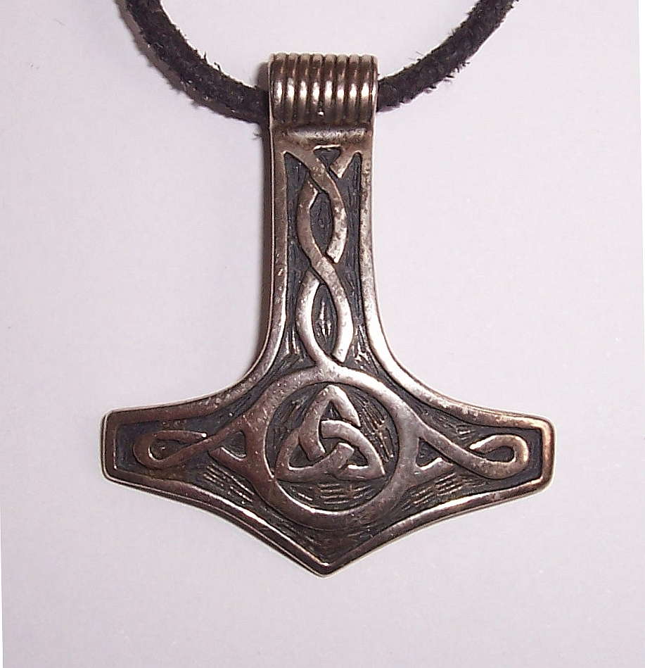 Mjöllnir